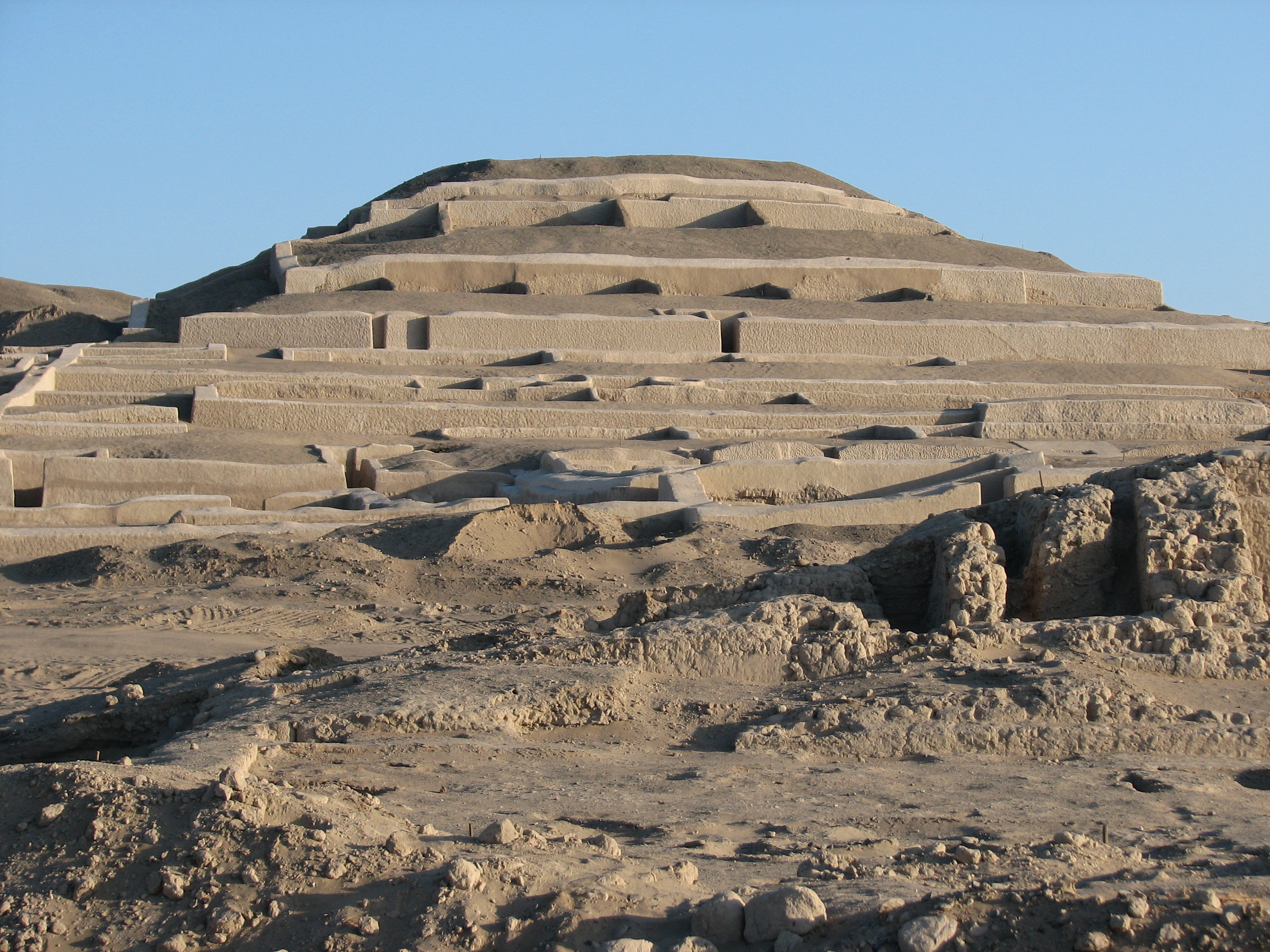 Cahuachi archaeological site in Peru